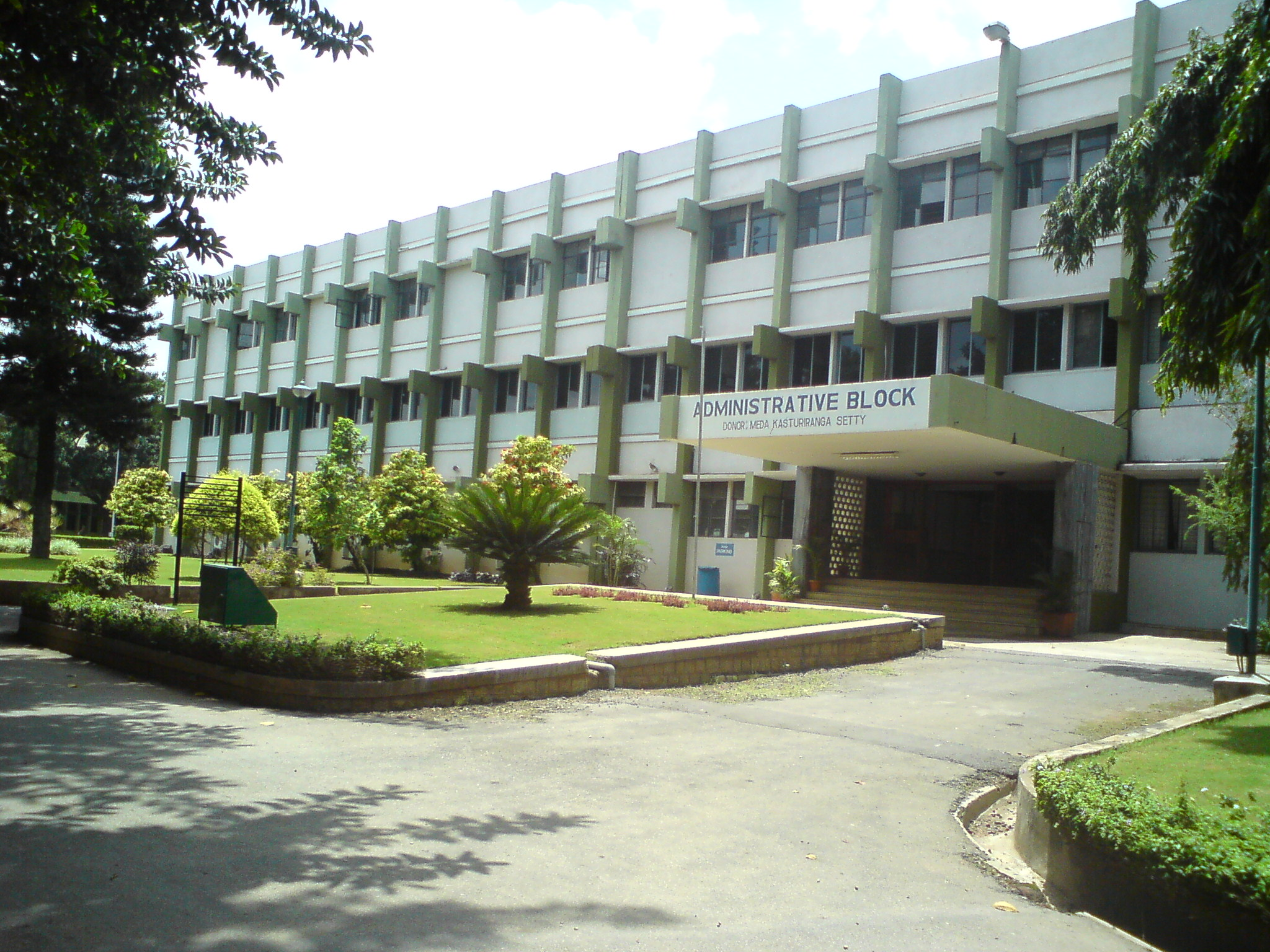 Photo of Rashtreeya Vidyalaya College of Engineering administration block.